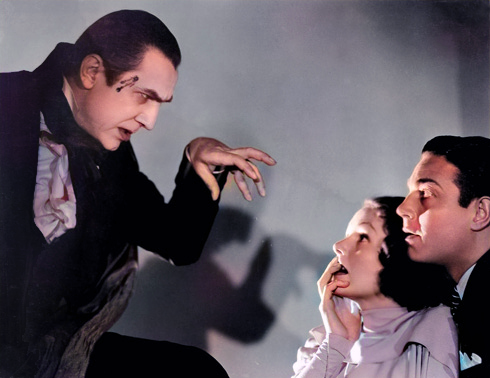 Colorized publicity shot featuring Bela Lugosi, Elizabeth Allan and Henry Wadsworth in Mark of the Vampire (MGM, 1935). Image is assumed to be in the public domain as no copyright notice has been attached.